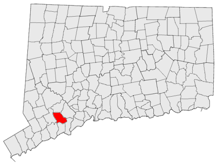 Locator map for Trumbull, Connecticut